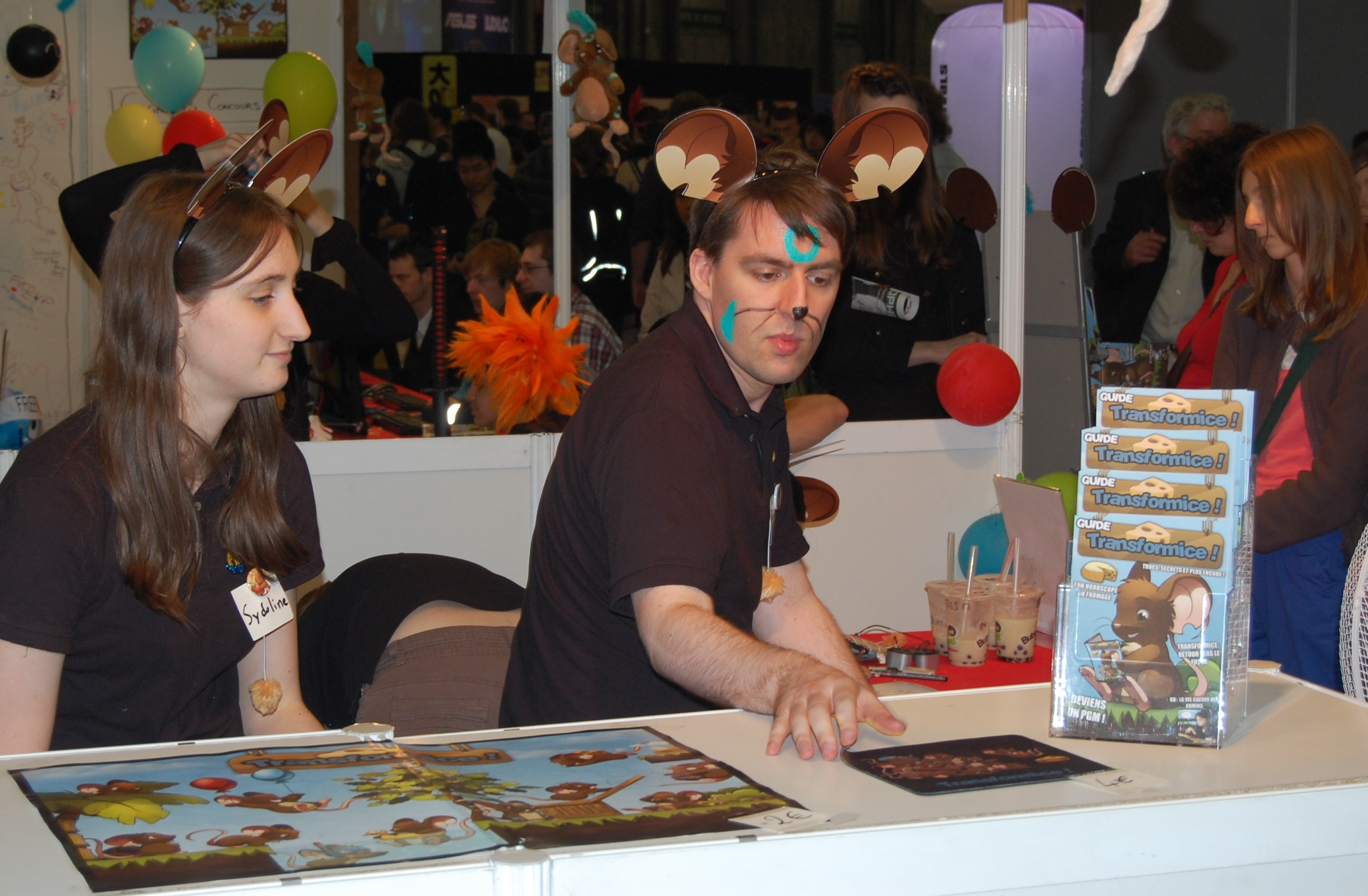 Transformice stand - Japan Expo 2012